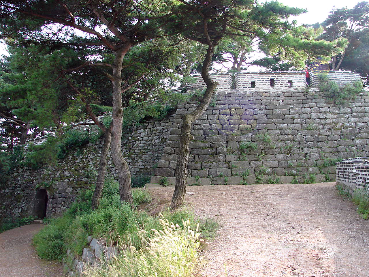 Gate and wall outside Namhan Sanseong lookout point